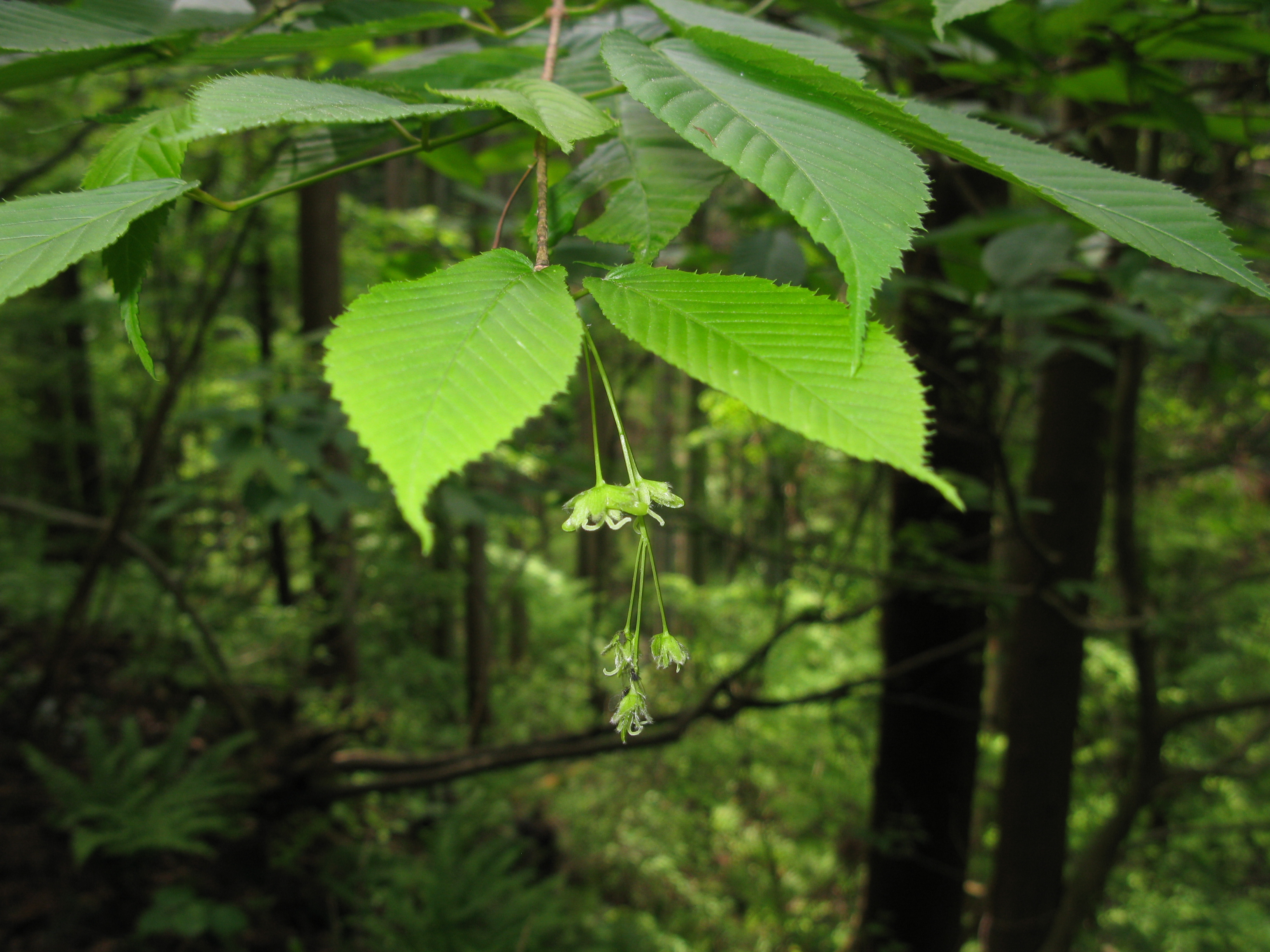 Acer carpinifolium, Aizu area, Fukushima pref., Japan